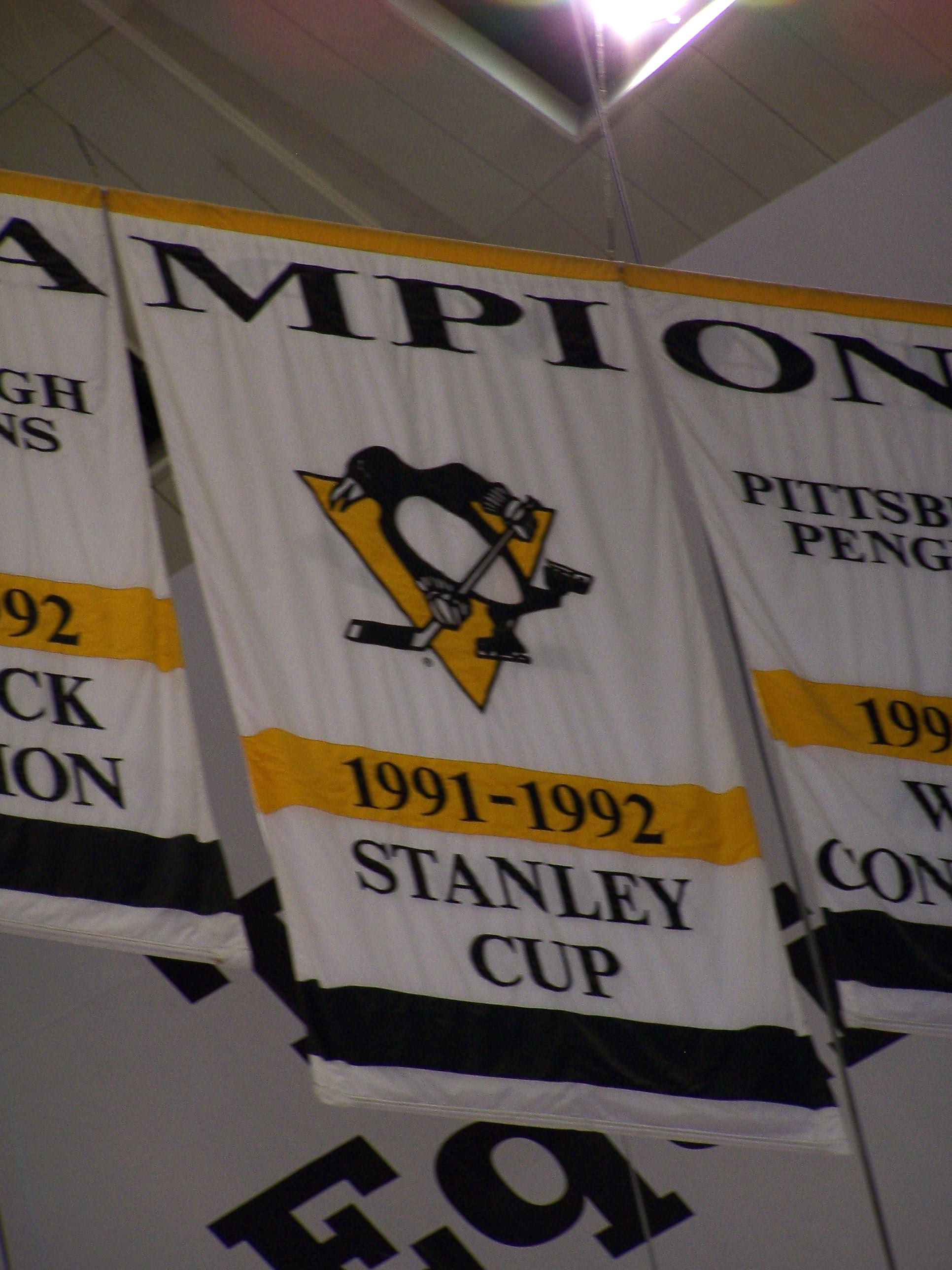 Pittsburgh Penguins banners of 1992